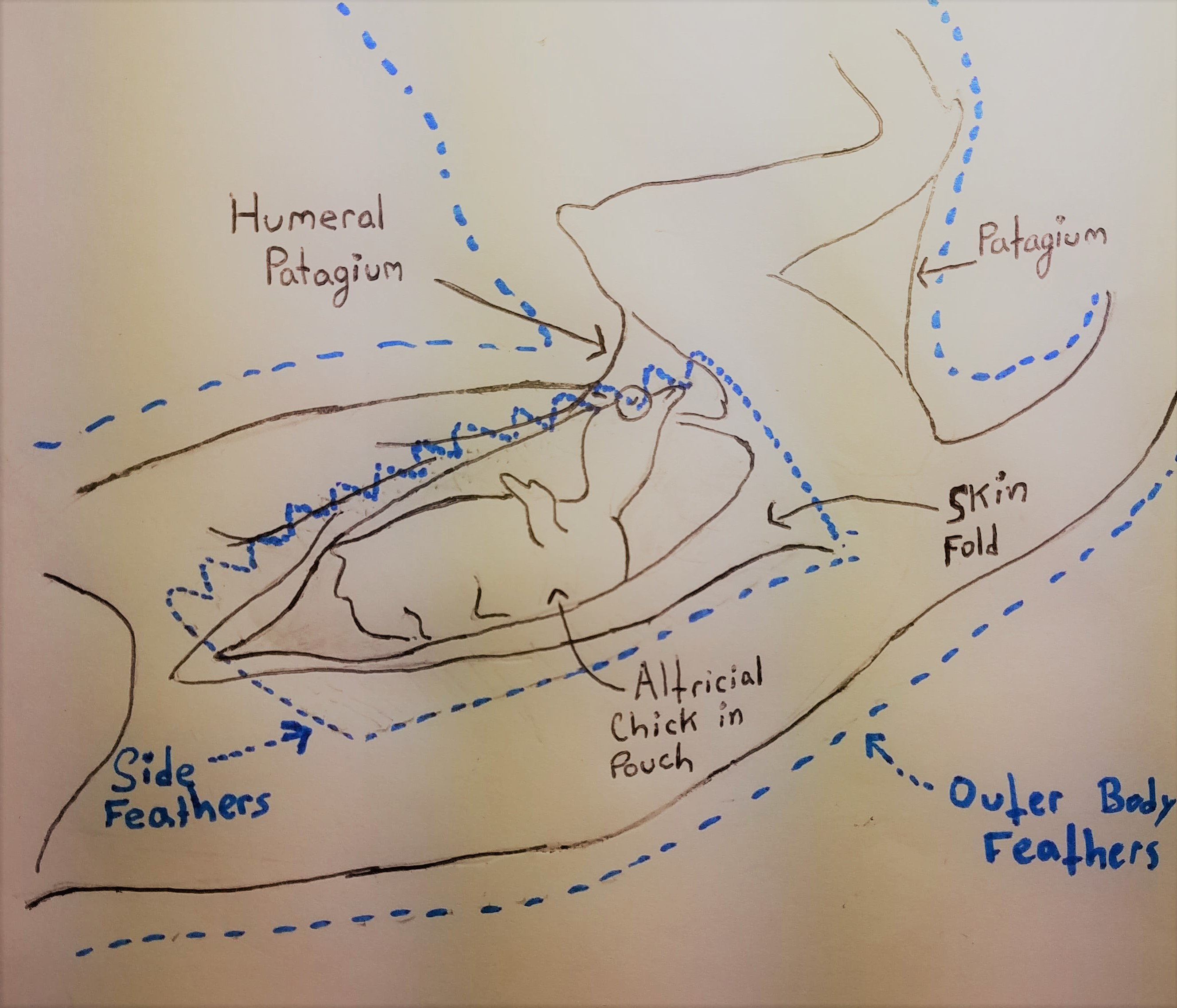 A sketched diagram of the pouch that male Sungrebes (Heliornis fulica) use to carry their young. After Álvarez del Toro (1971).